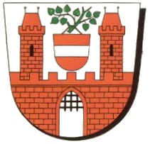 Coat of arms of Ybbs an der Donau, Lower Austria